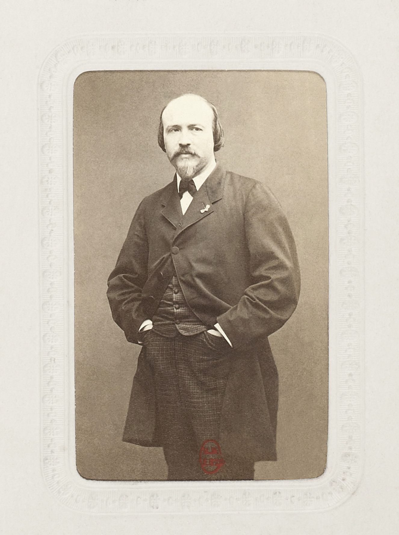 Victor Massé (1822-1884), french composer